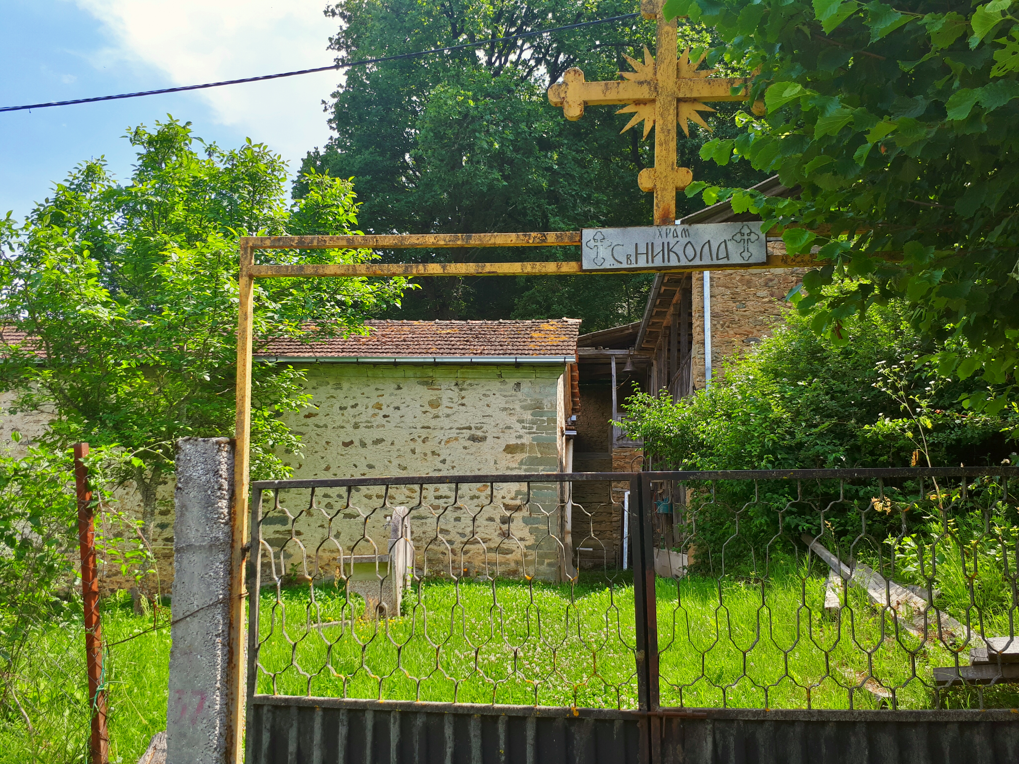 Church in the village Slansko, Makedonski Brod